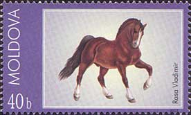 Stamp of Moldova